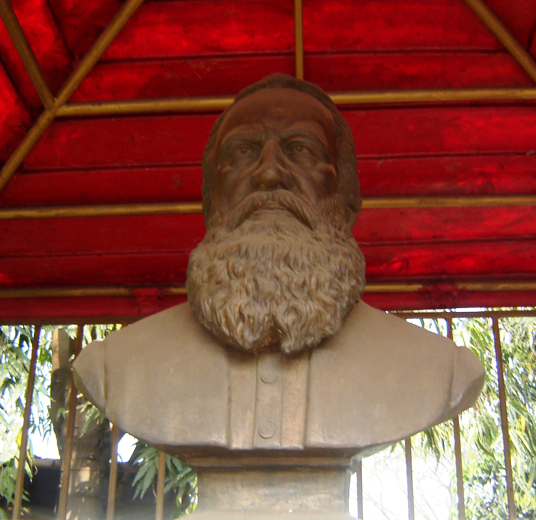 Bust of James Long on James LOng Sarani, Kolkata